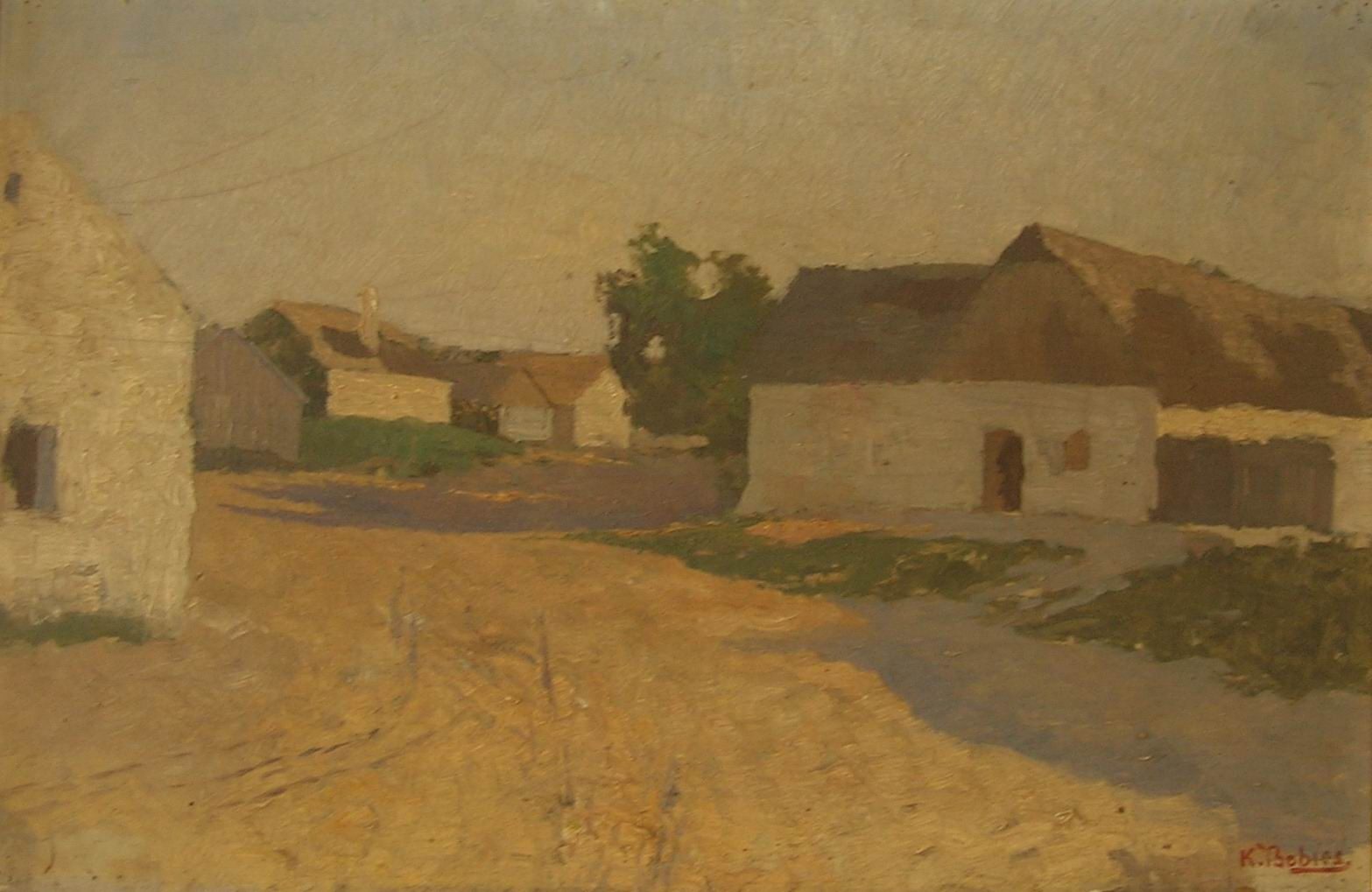 The house where Joseph Haydn was born